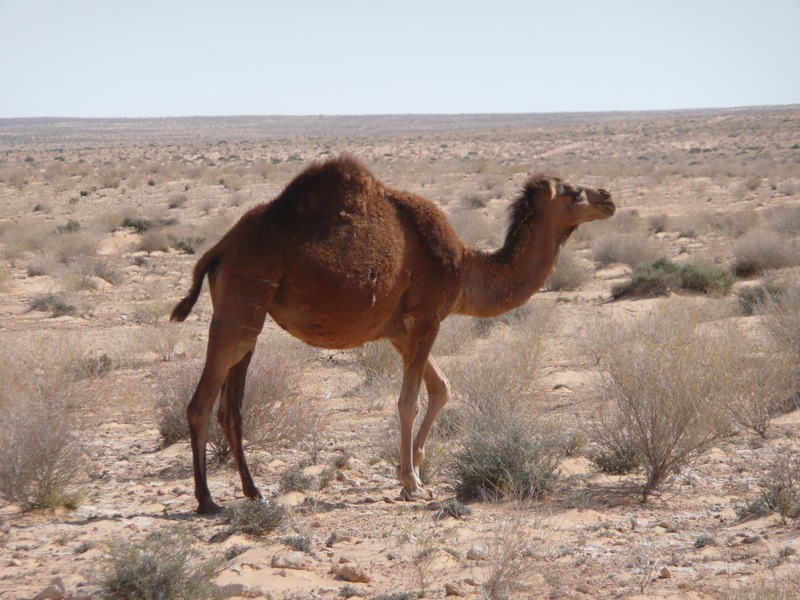 The Sahara (Arabic: الصَحراء الكُبرى, aṣ-ṣaḥrā´ al-koubra, "The Great Desert") is the world's largest hot desert and the world's second largest desert after Antarctica.